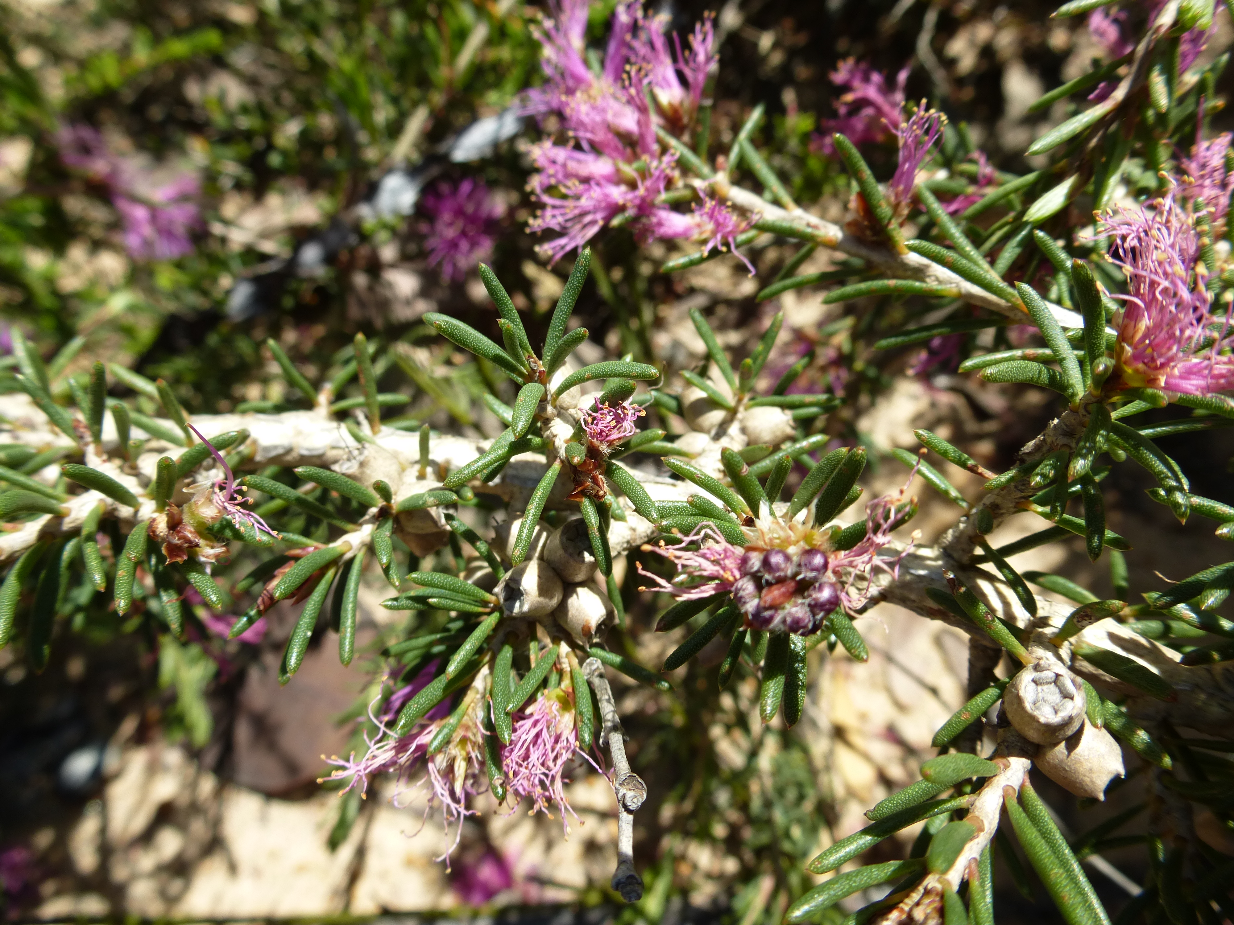 Melaleuca scabra growing at Mylies Beach near East Mount Barren